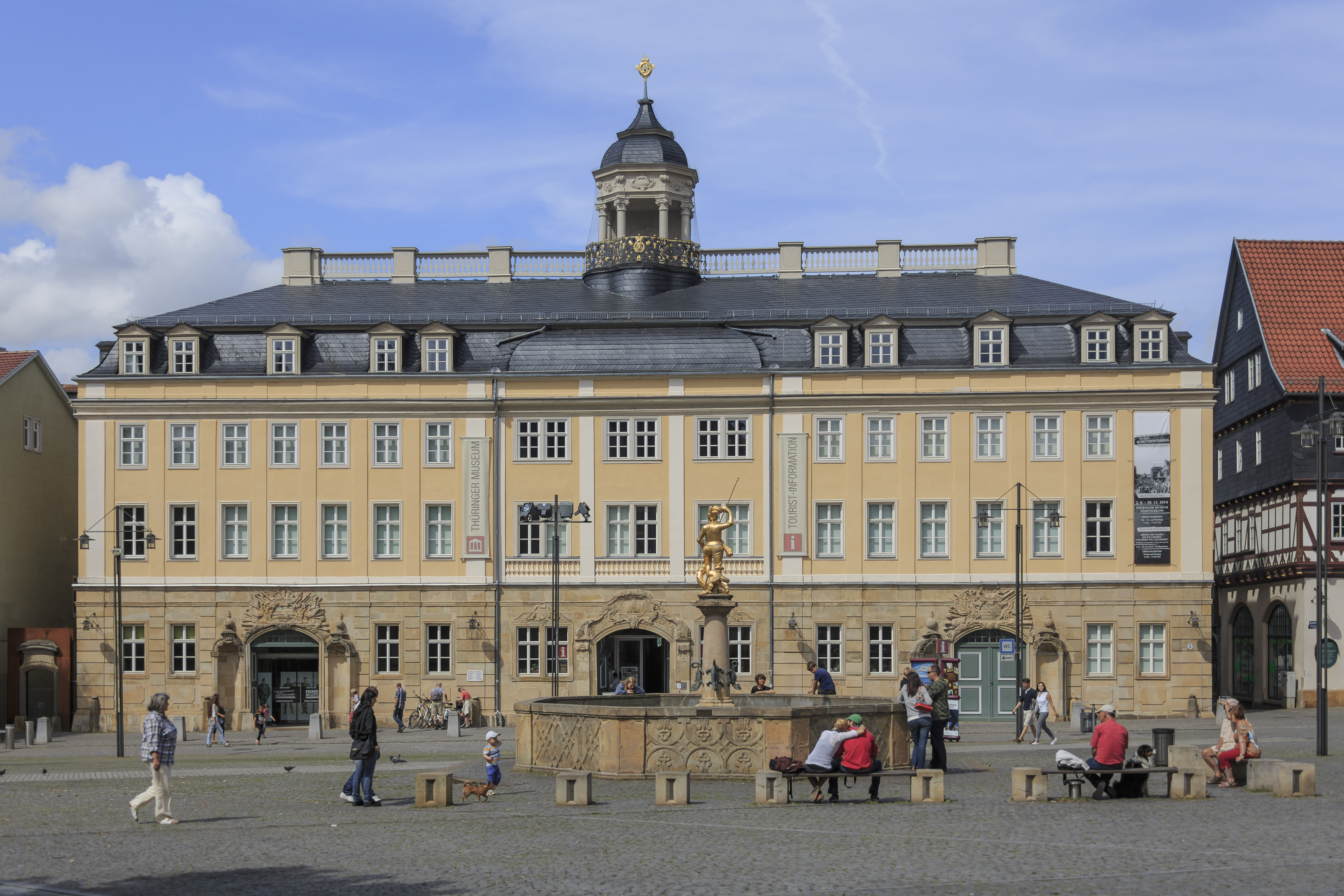 Eisenach, Germany: Stadtschloss Eisenach with St.-Georgsbrunnen